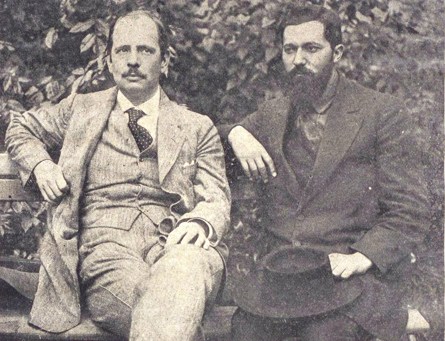 Portrait of the Bulgarian philosopher Dimitar Mihalchev and the politician Grigor Vasilev, Prague